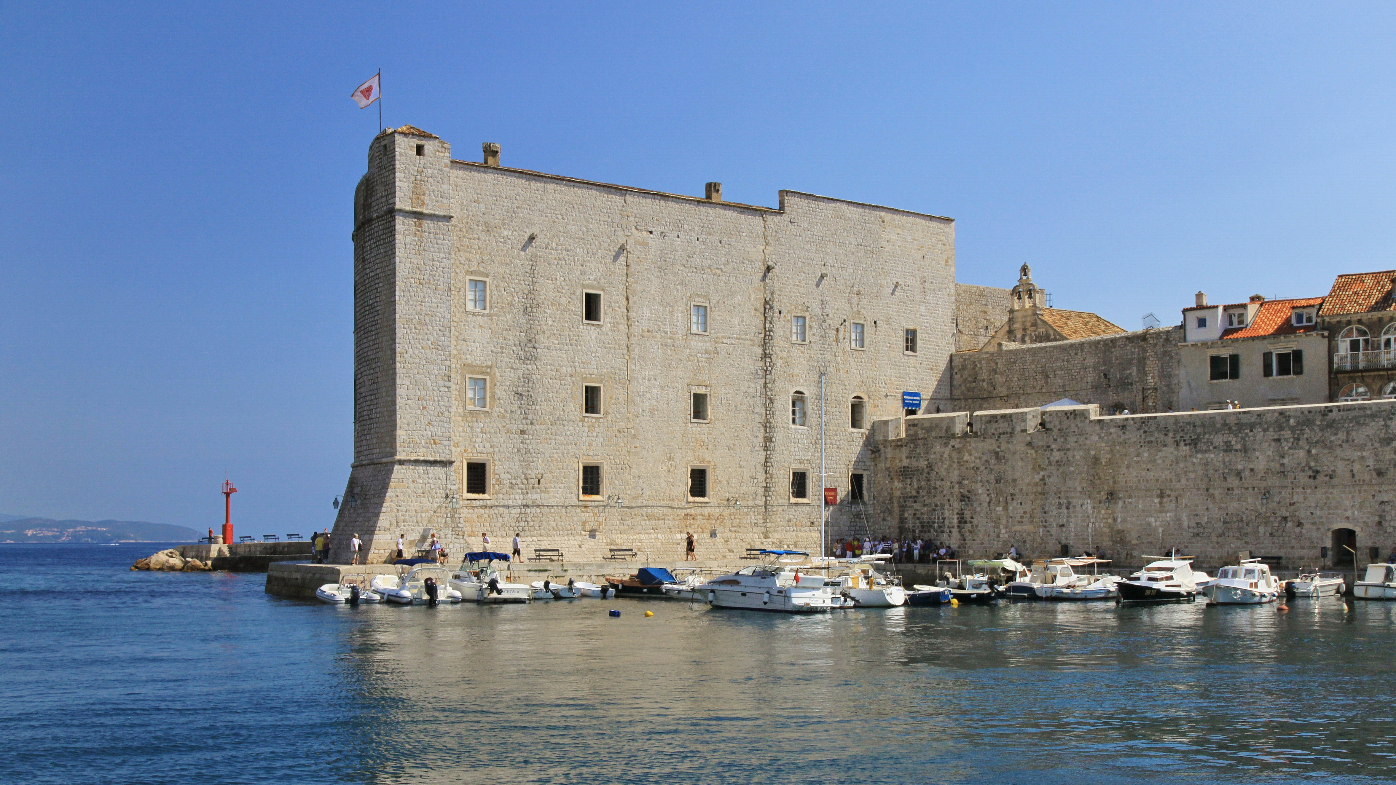 St. John Fortress. Dubrovnik, Dubrovnik-Neretva County, Croatia.